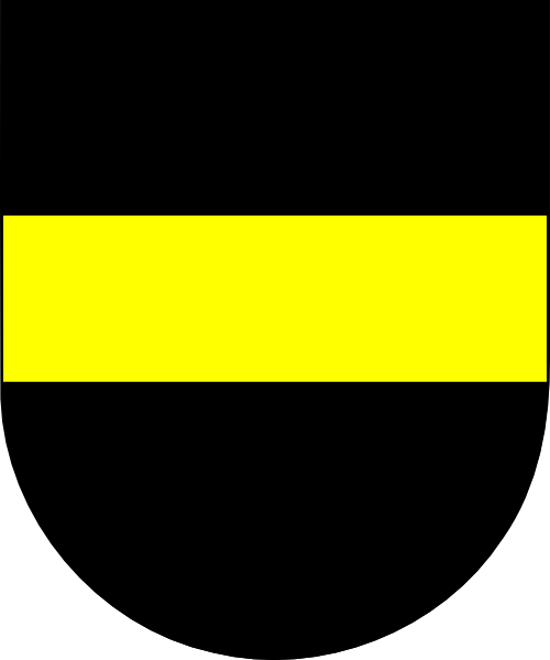 Coat of arms (shield only) of František Kordač, archbishop of Prague (1919 - 1931). Identical with the arms of the archdiocese; he did not use his own personal arms.